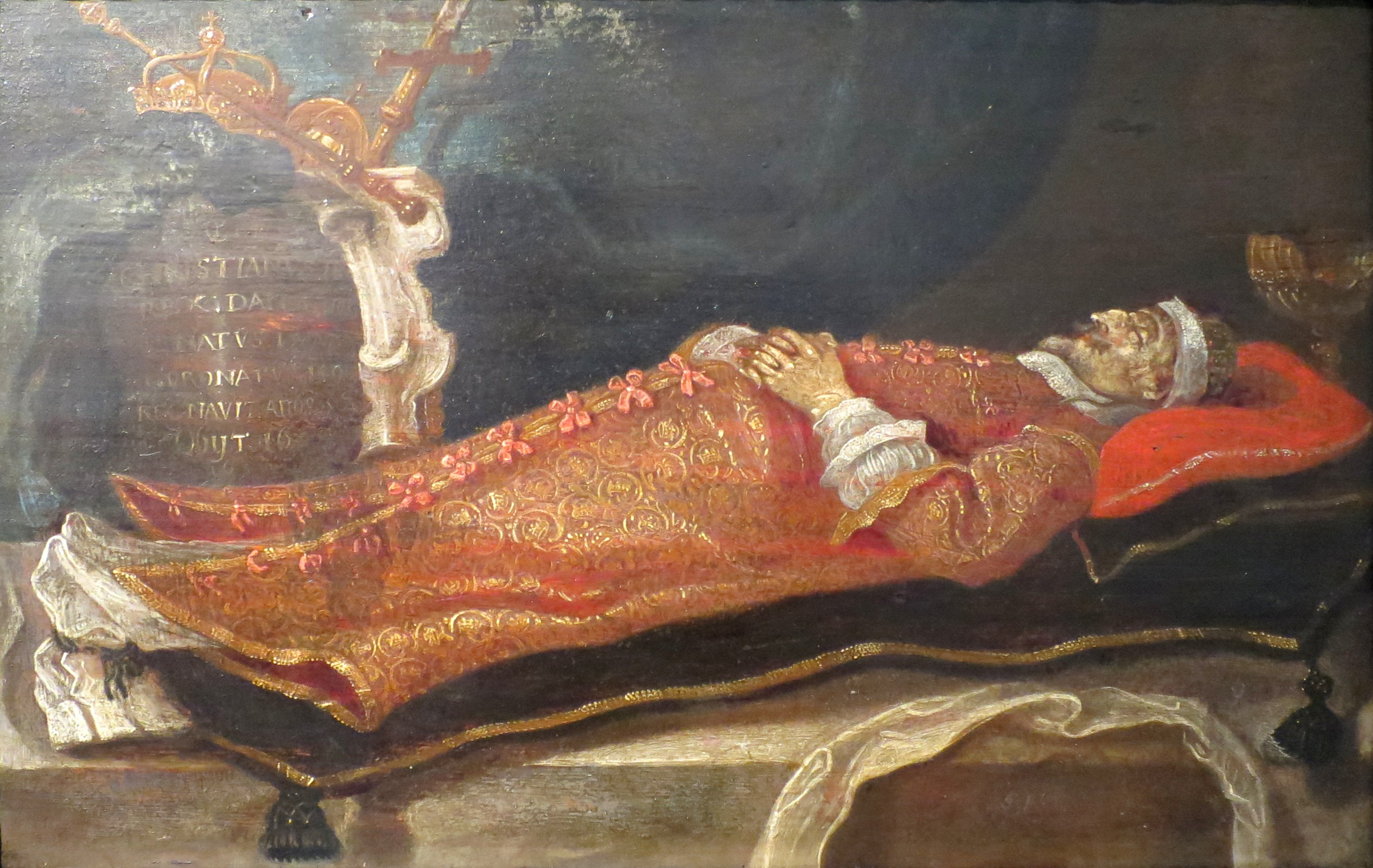 The Dead King Christian IV by Elias Fiigenschou, 1656, oil on canvas, Bergen Kunstmuseum